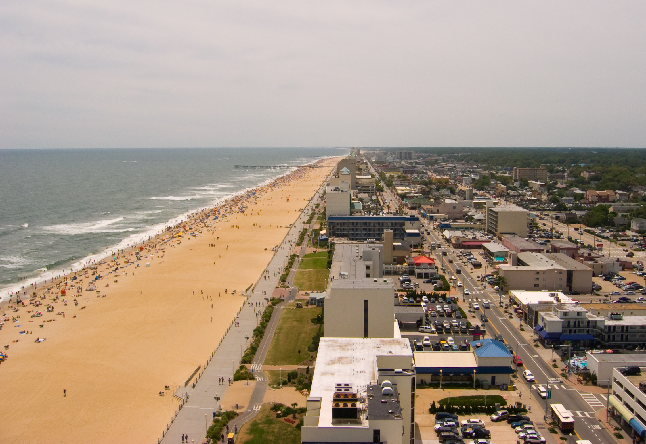 Southern stretch of Virginia Beach